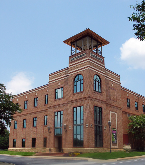 Exterior of the Citi-Smith-Barney building at 501 River Street, Greenville, SC where Centre Stage, Greenville's Professional Theater is housed. The theater occupies approximately one-third of the entire building.